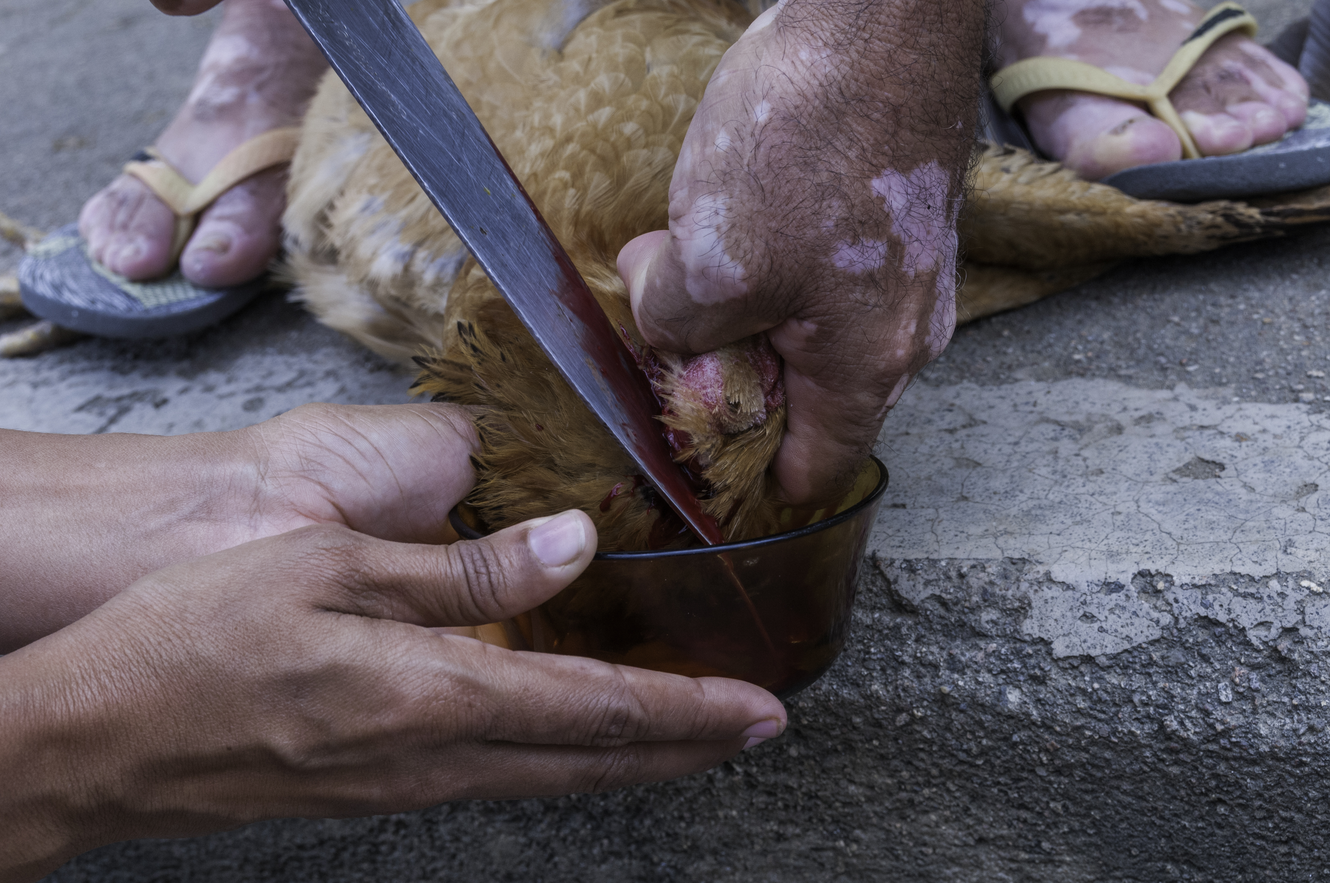 Killing hen for lunch